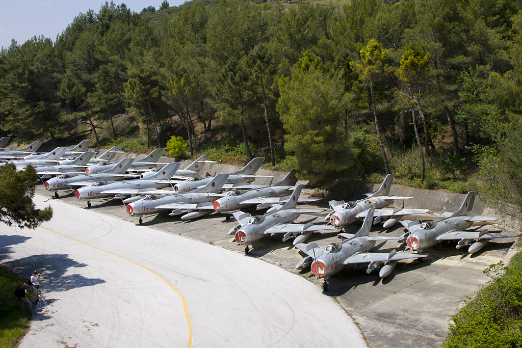 There were many F6 fighters left at Kucove.